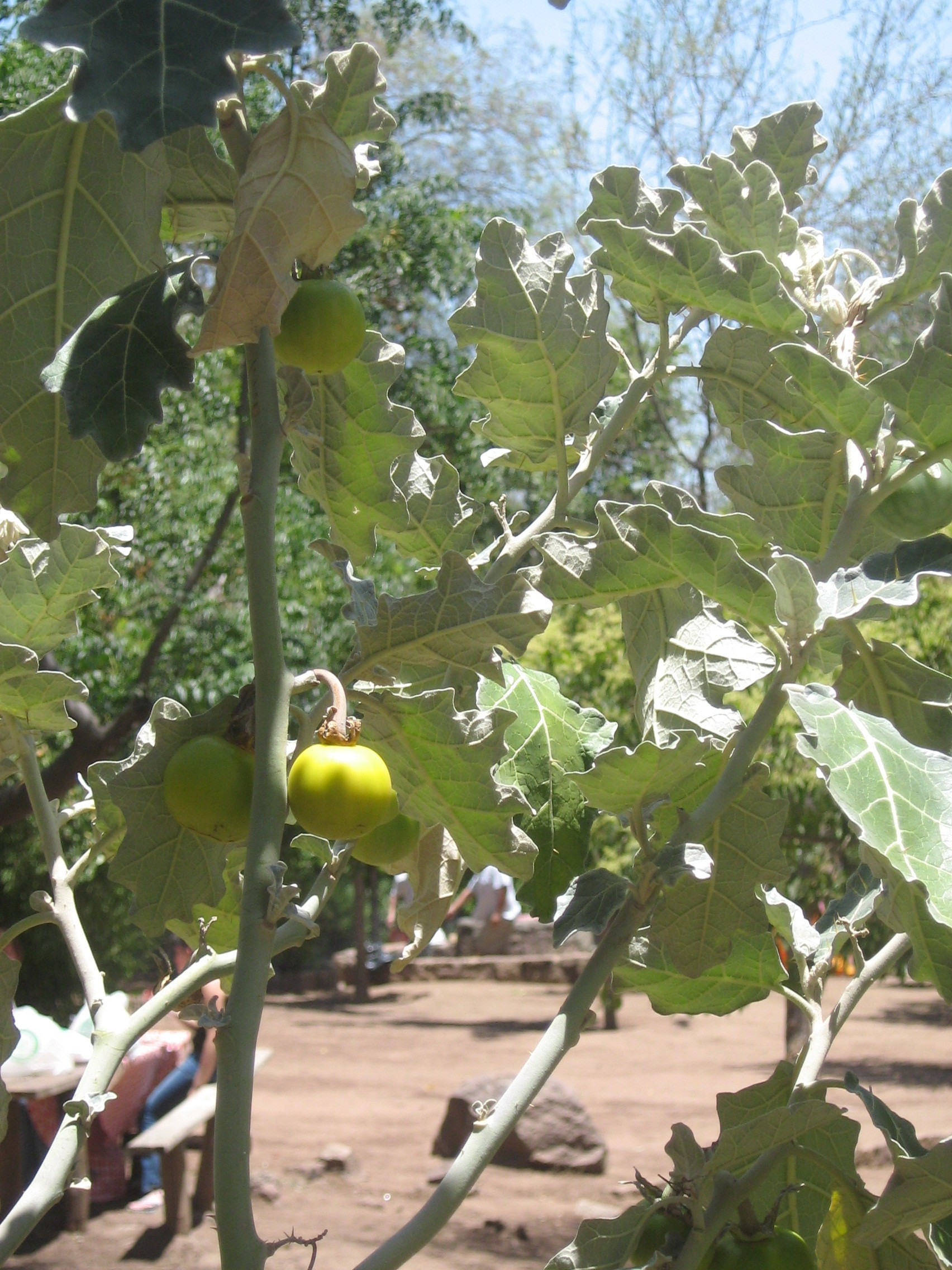 Solanum marginatum L.f., source of solasodine